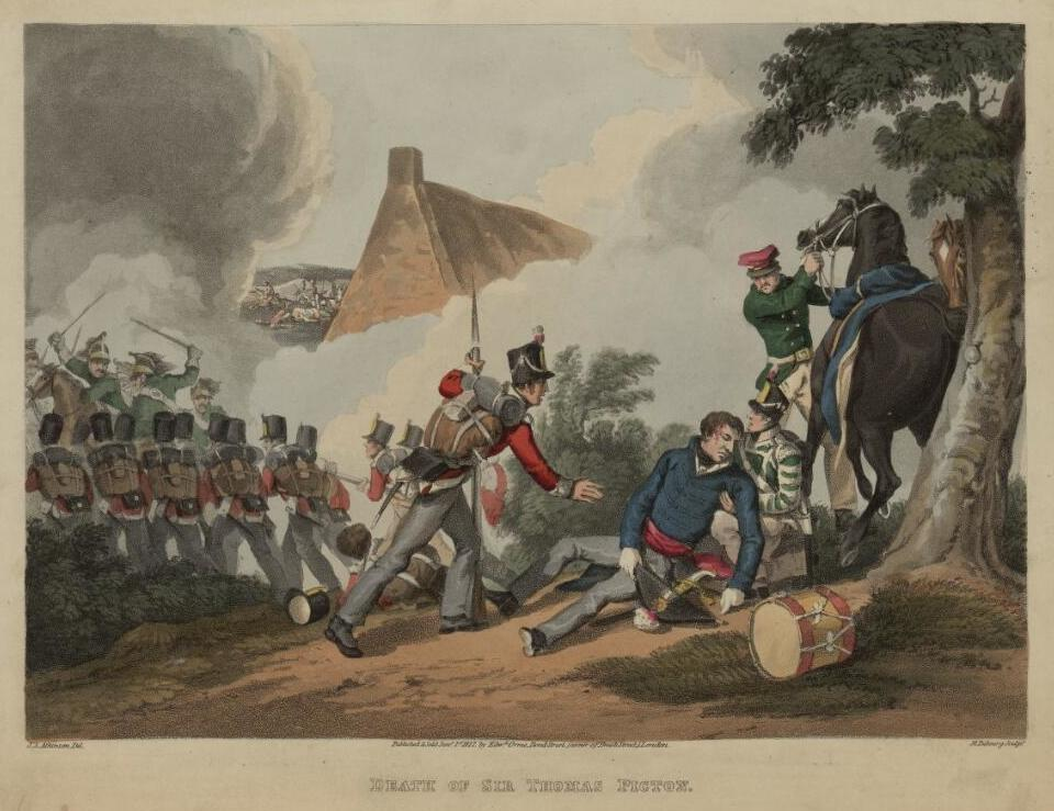 A portrait from the Welsh Portrait Collection at the National Library of Wales. Depicted person: Thomas Picton – Welsh general who served in the British Army